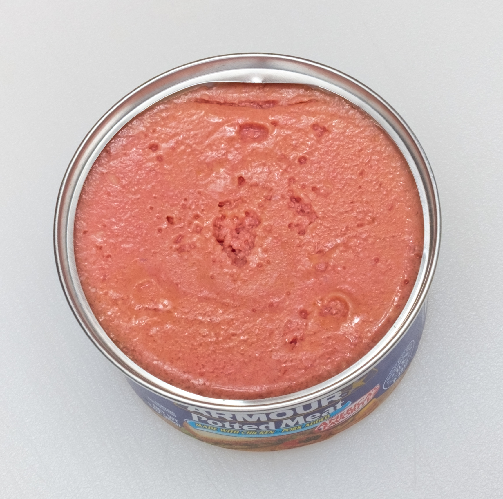 Armour Potted Meat Food Product, can opened displaying contents